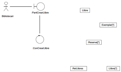 Pas 3